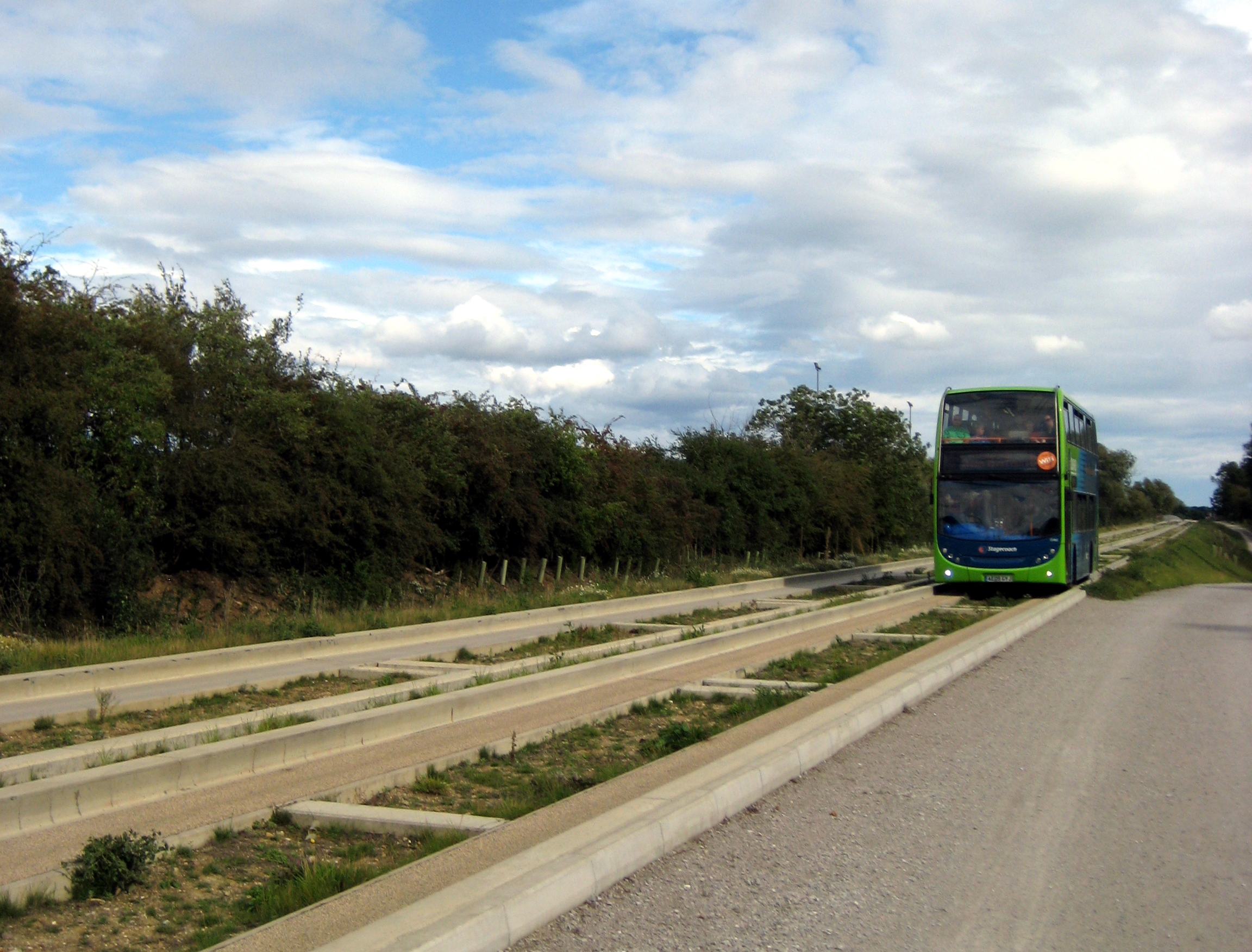 Stagecoach in Huntingdonshire bus 15461 (reg. AE09 GYJ), branded for and operating on the Cambridgeshire Guided Busway, on the first day of public services.